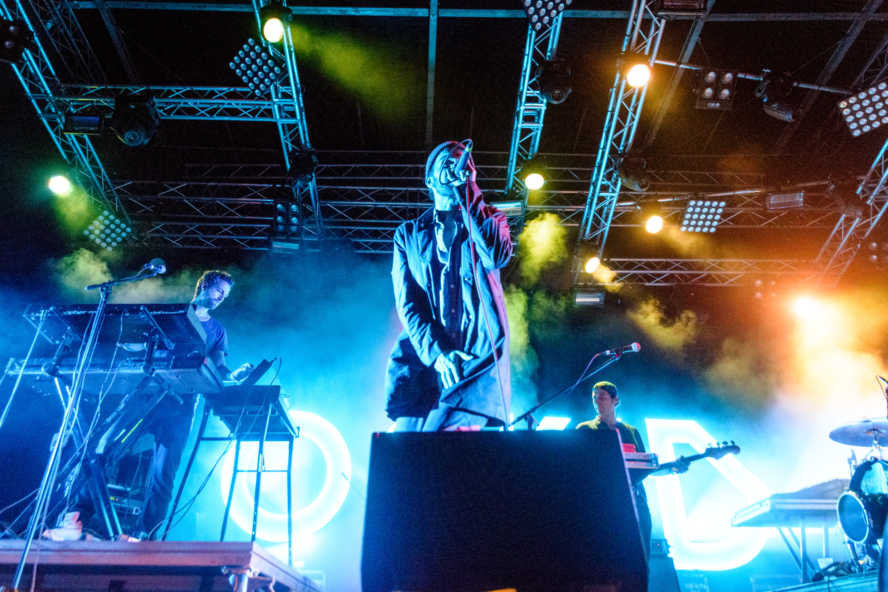 OK Kid Live @ Utopia Island 2015